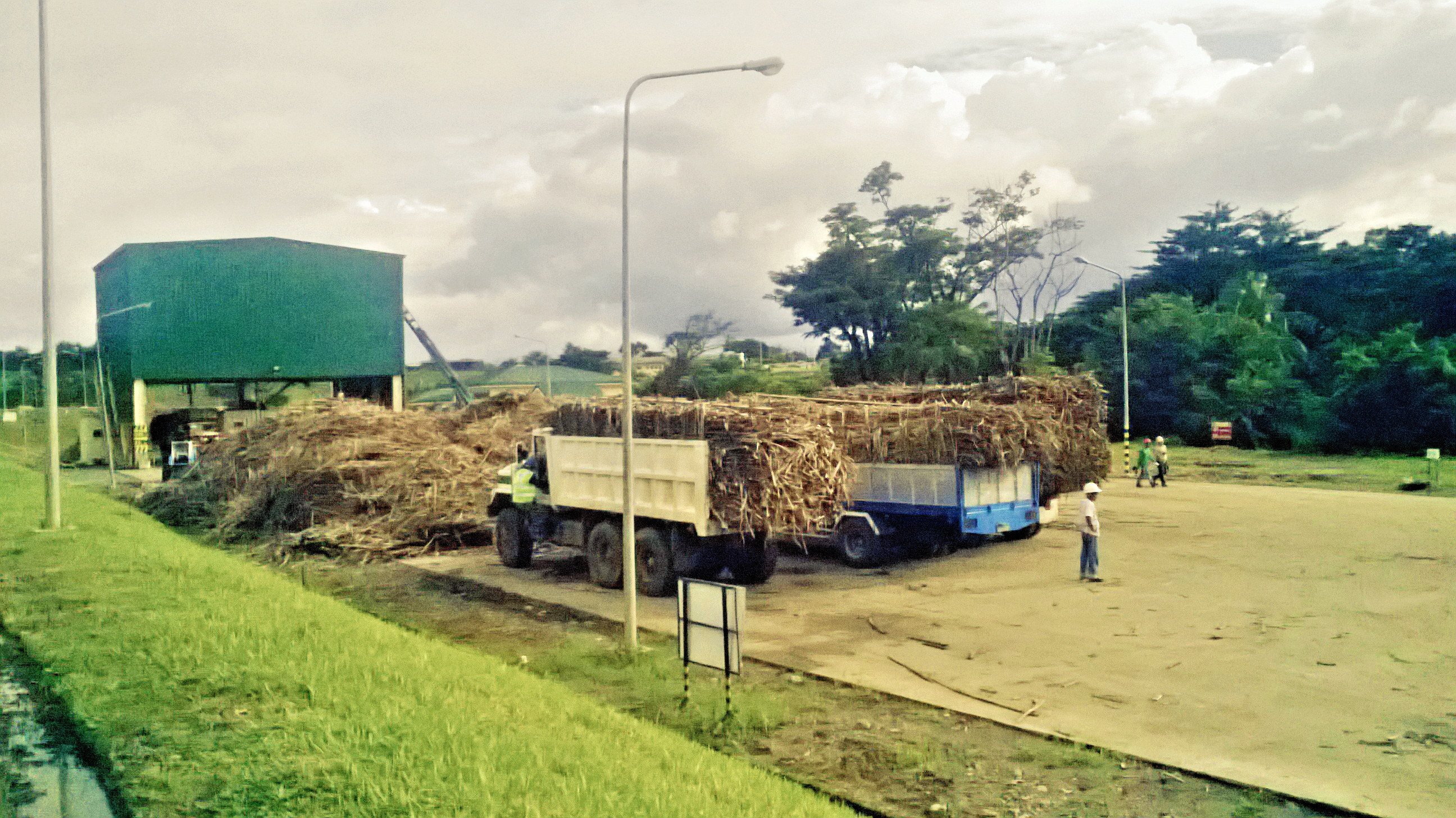 trucks delivery of sugarcane for bioethanol production